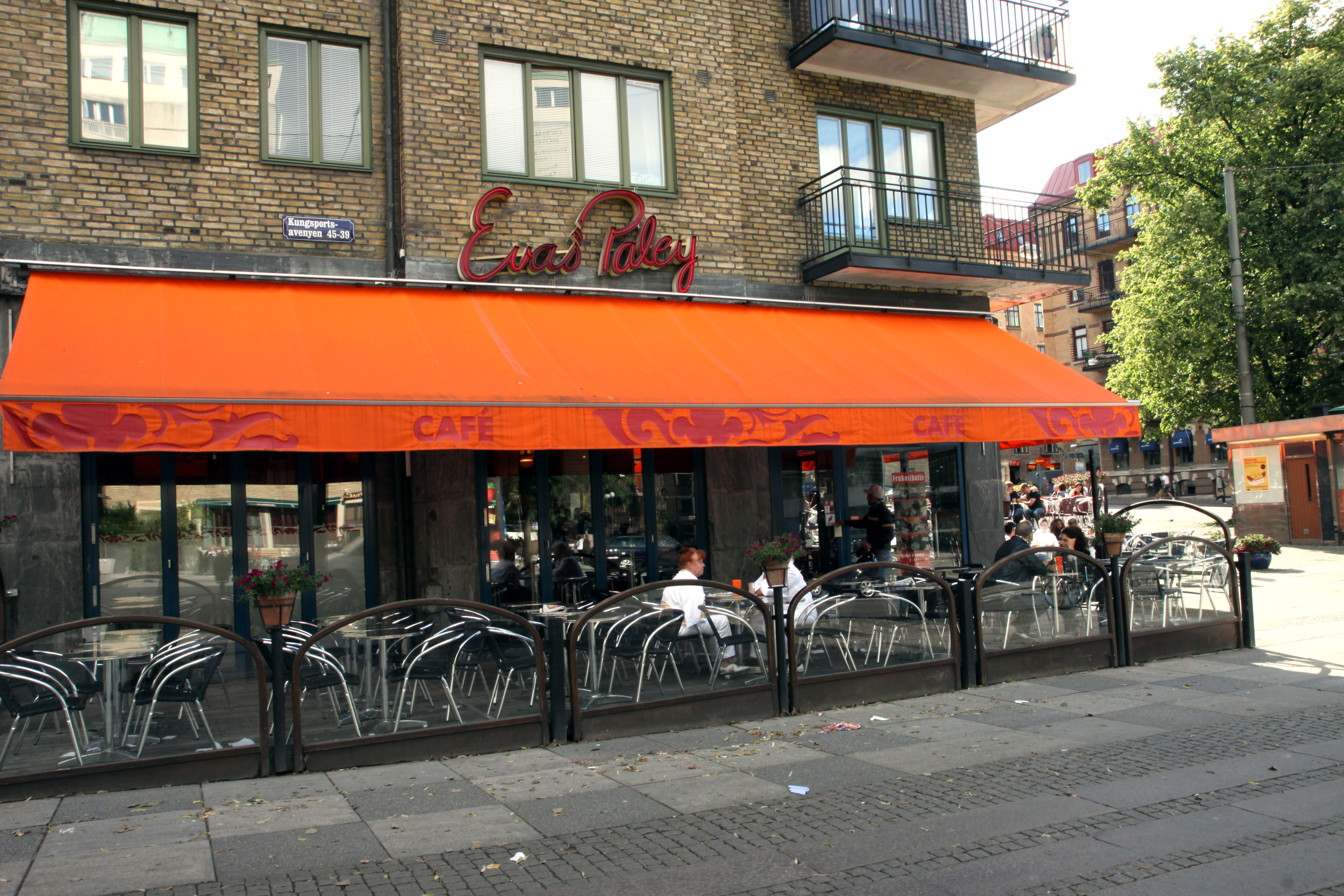 The café "Eva's Paley in Gothenburg, Sweden